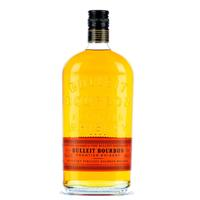 Bulleit Bourbon Bottle